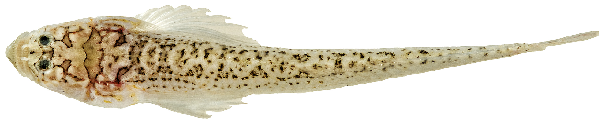 Dactyloscopus tridigitatus Gill, 1859—sand stargazer, 50.8 mm SL, dorsal view. Photo by JT Williams.